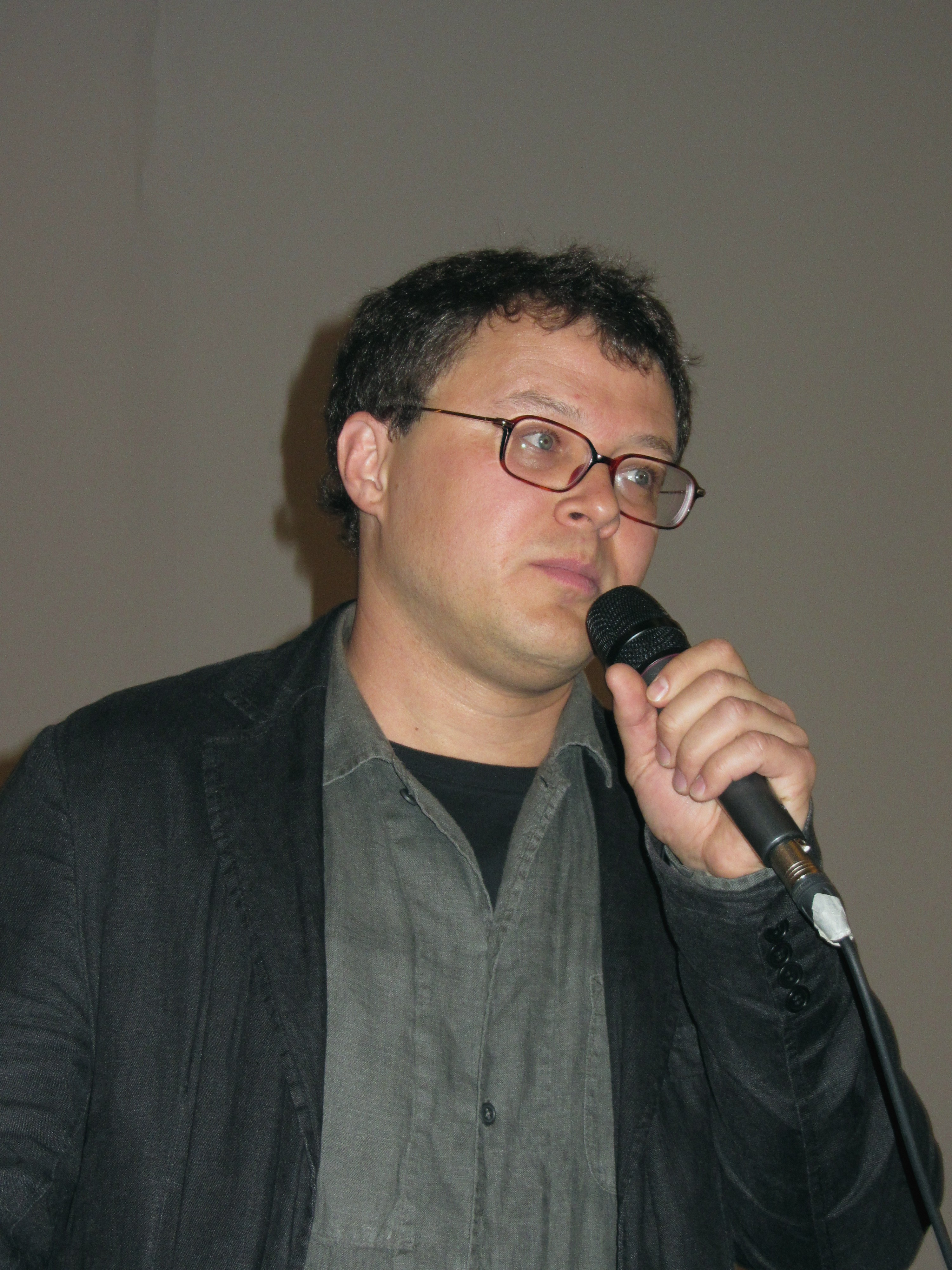 Russian writer Gleb Shulpyakov at the 7 Moscow International Book Festival, 2012